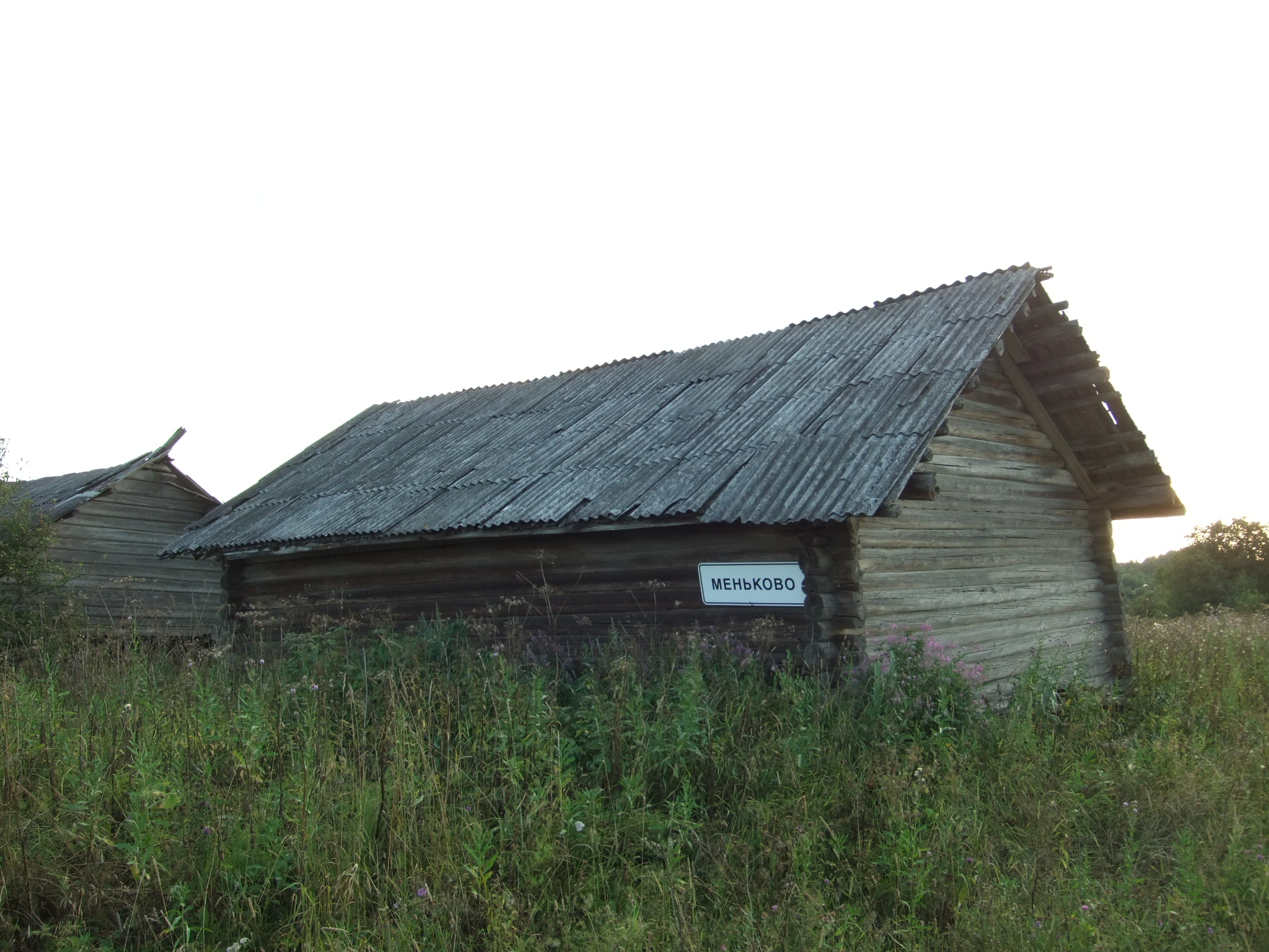 Approaching Menkovo (Yaroslavls Oblast) from Dermenino, along the area's main road. The village's first house (abandoned) has a new plaque with the village's name